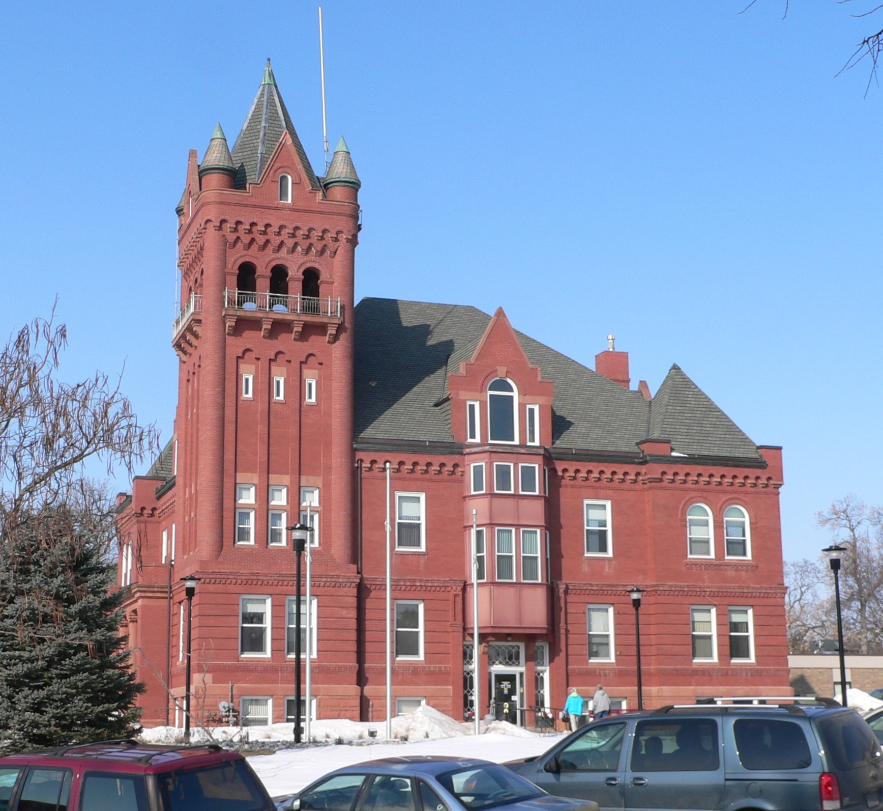 Wayne County Courthouse in Wayne, Nebraska; seen from the east. The courthouse was designed in Richardsonian Romanesque style by the architectural firm of Orff & Guilbert, and was built in 1899. It is listed in the National Register of Historic Places.